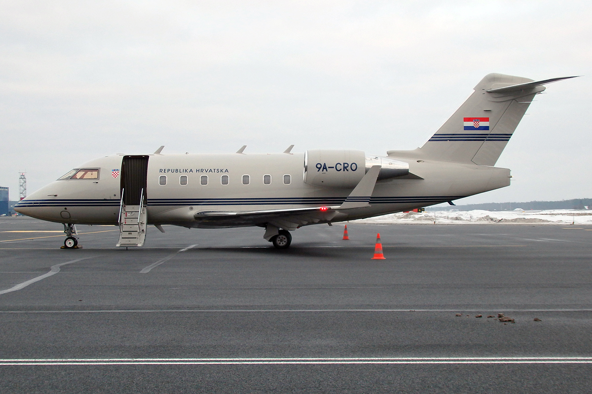 Croatia Government, 9A-CRO, Canadair CL604 Challenger